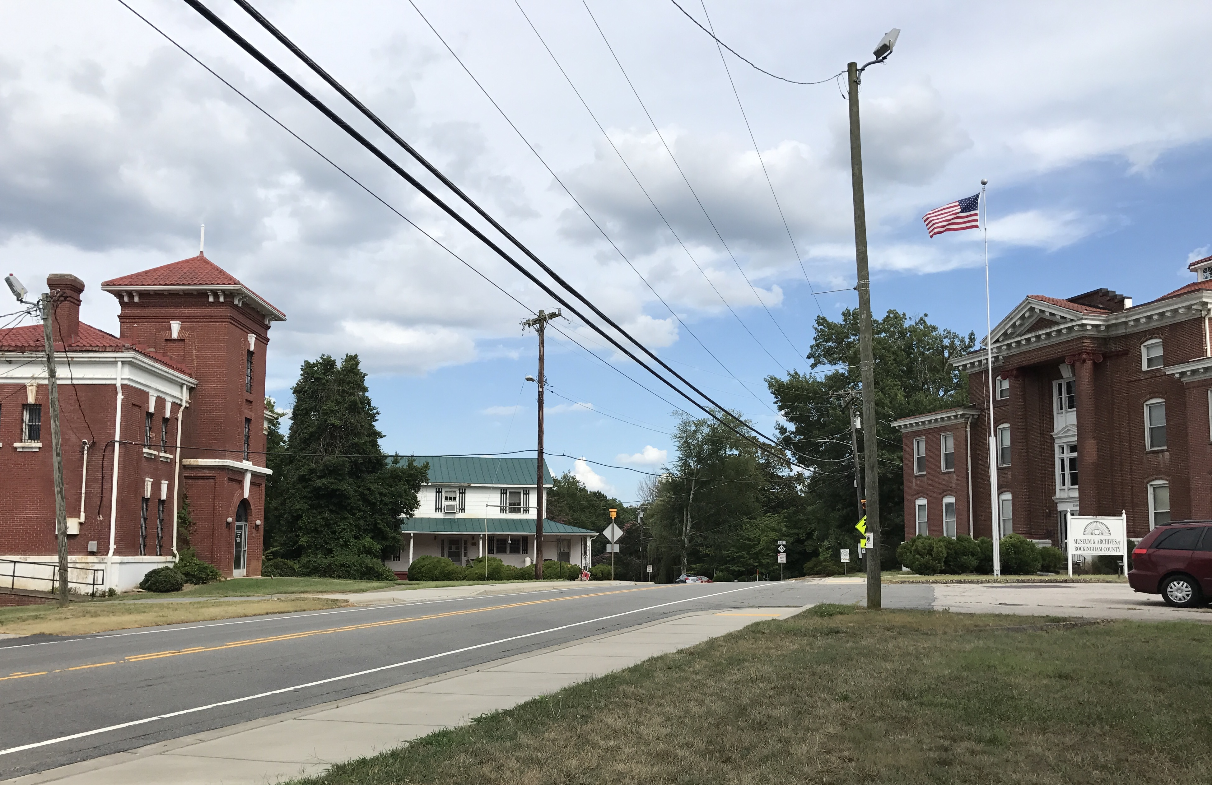 Center of Wentworth, North Carolina. The former Rockingham County Jail stands at the left, and the former Rockingham County Courthouse stands at the right